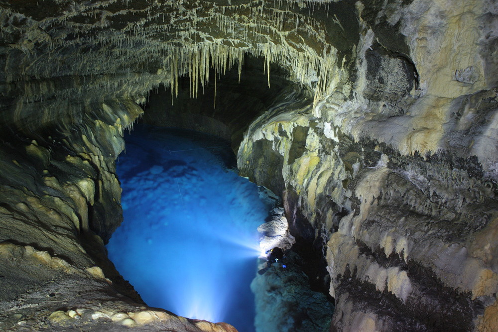 The "Millennium Lake" in Yongcheon Cave (Natural Monument).